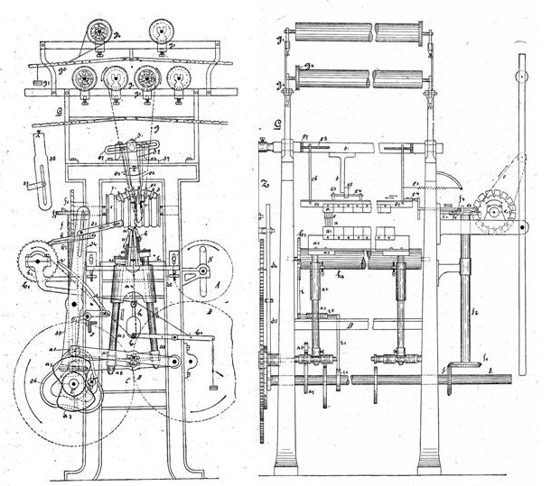 Drawing of a Rashel machine of old construction (early 20th century)